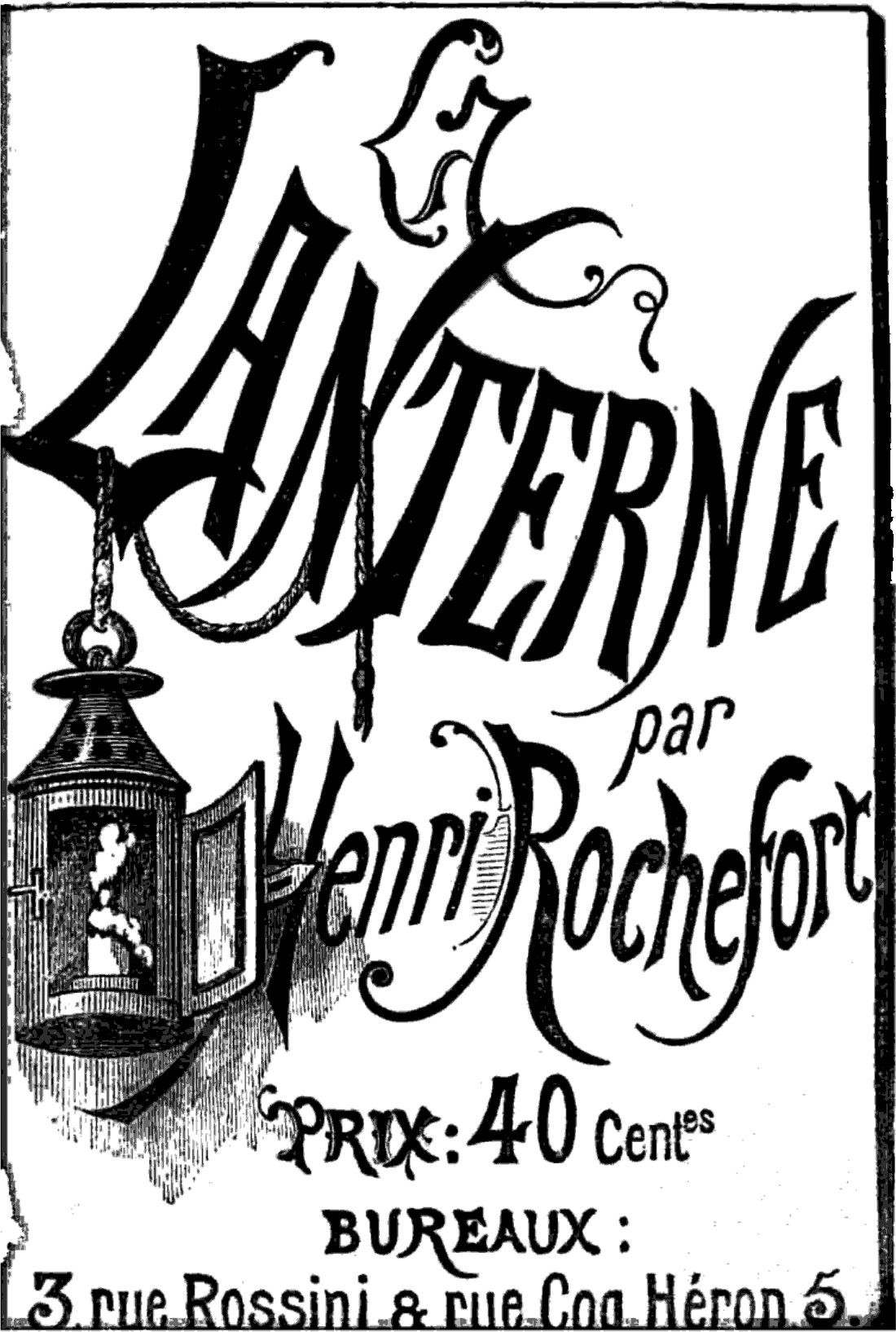 Frontispiece of La Lanterne by Henri Rochefort.